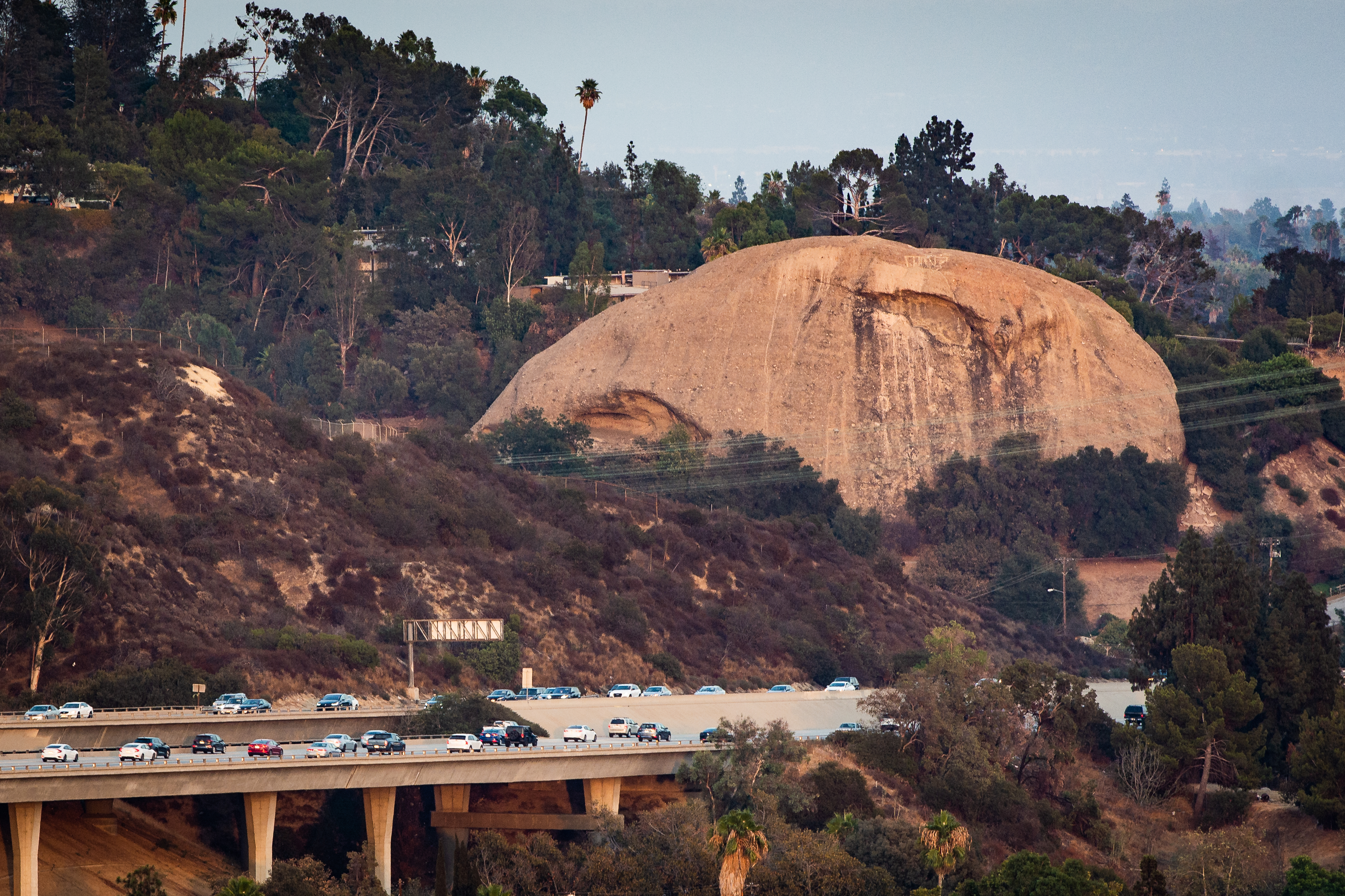 The Eagle Rock is located adjacent to California State Route 134 (the Ventura Freeway), north of downtown Los Angeles, at the border of Pasadena, California.